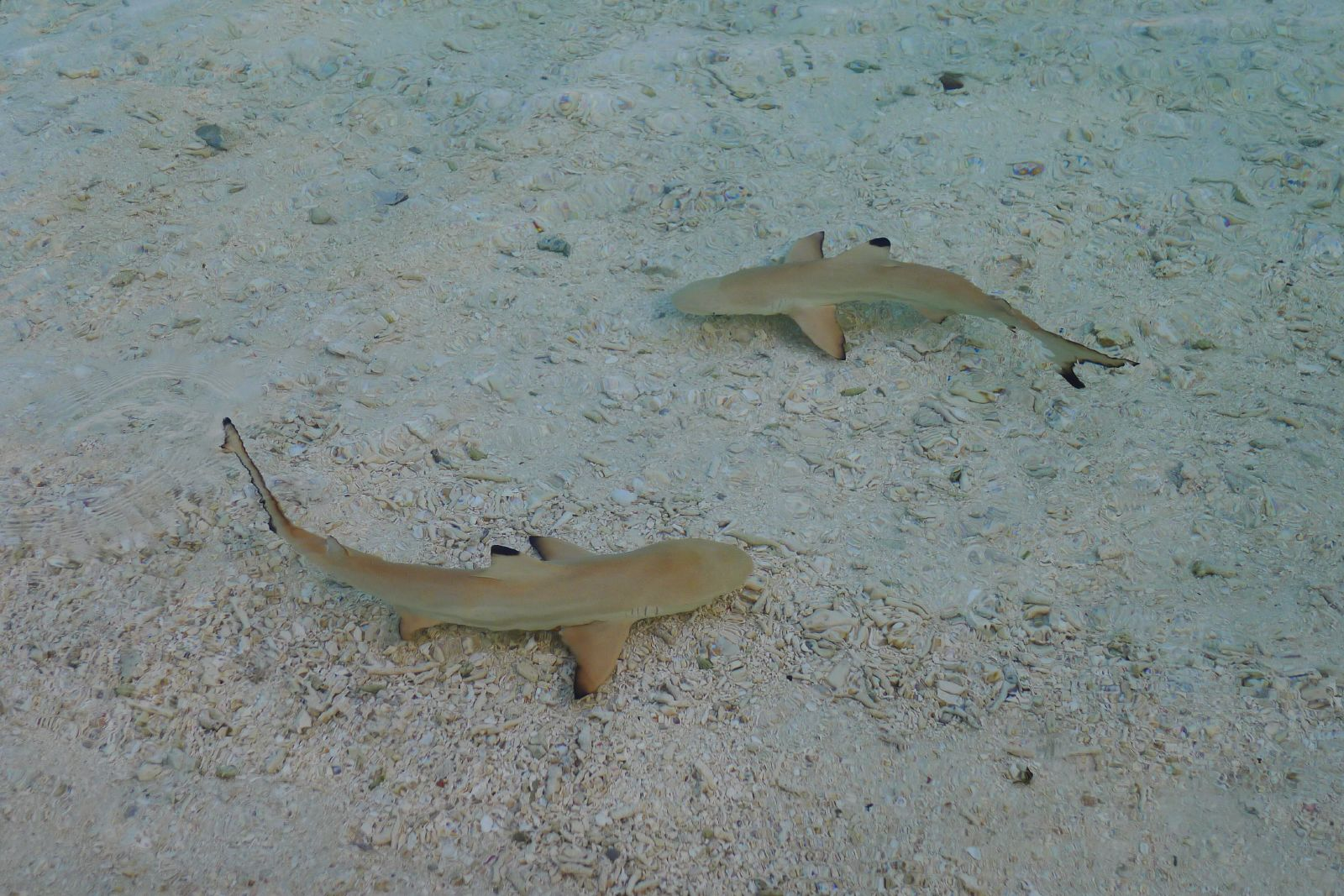 Baby blacktip reef sharks (Carcharhinus melanopterus) in shallow water by the beach at Angsana Velavaru, Maldives.